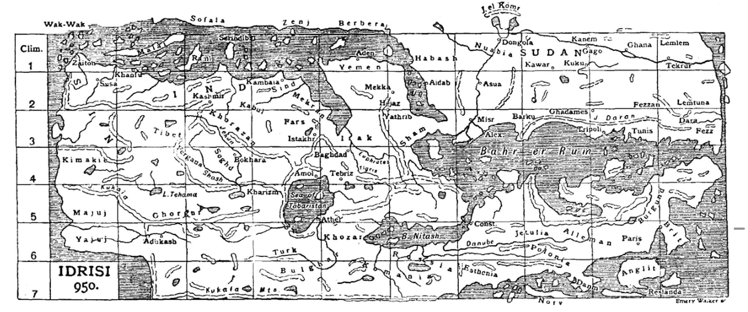 Caption: "Fig. 16.—Idrisi (1154)."A simplified black-and-white English, Latin, and Arabic version of the map of the known world composed by al-Idrisi for King Roger II of Sicily. South at top.